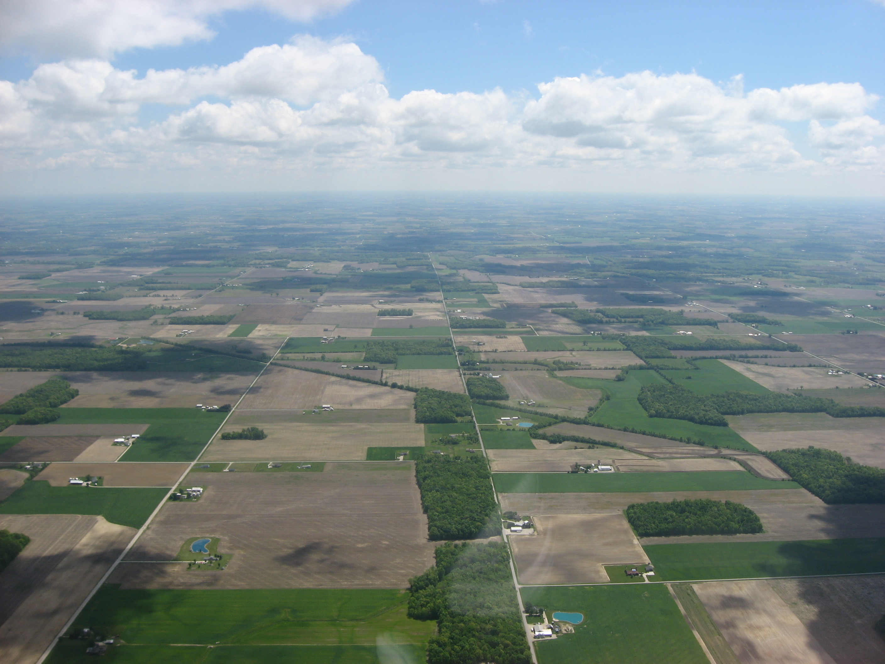 Aerial view of western and central Seneca Township, Seneca County, Ohio, United States, north of Berwick. Picture taken from a Diamond Eclipse light airplane at an altitude of 3,400 feet MSL and a bearing of approximately 90º. Long roads extending from bottom of picture are Township Road 94 (left) and Township Road 90 (right).